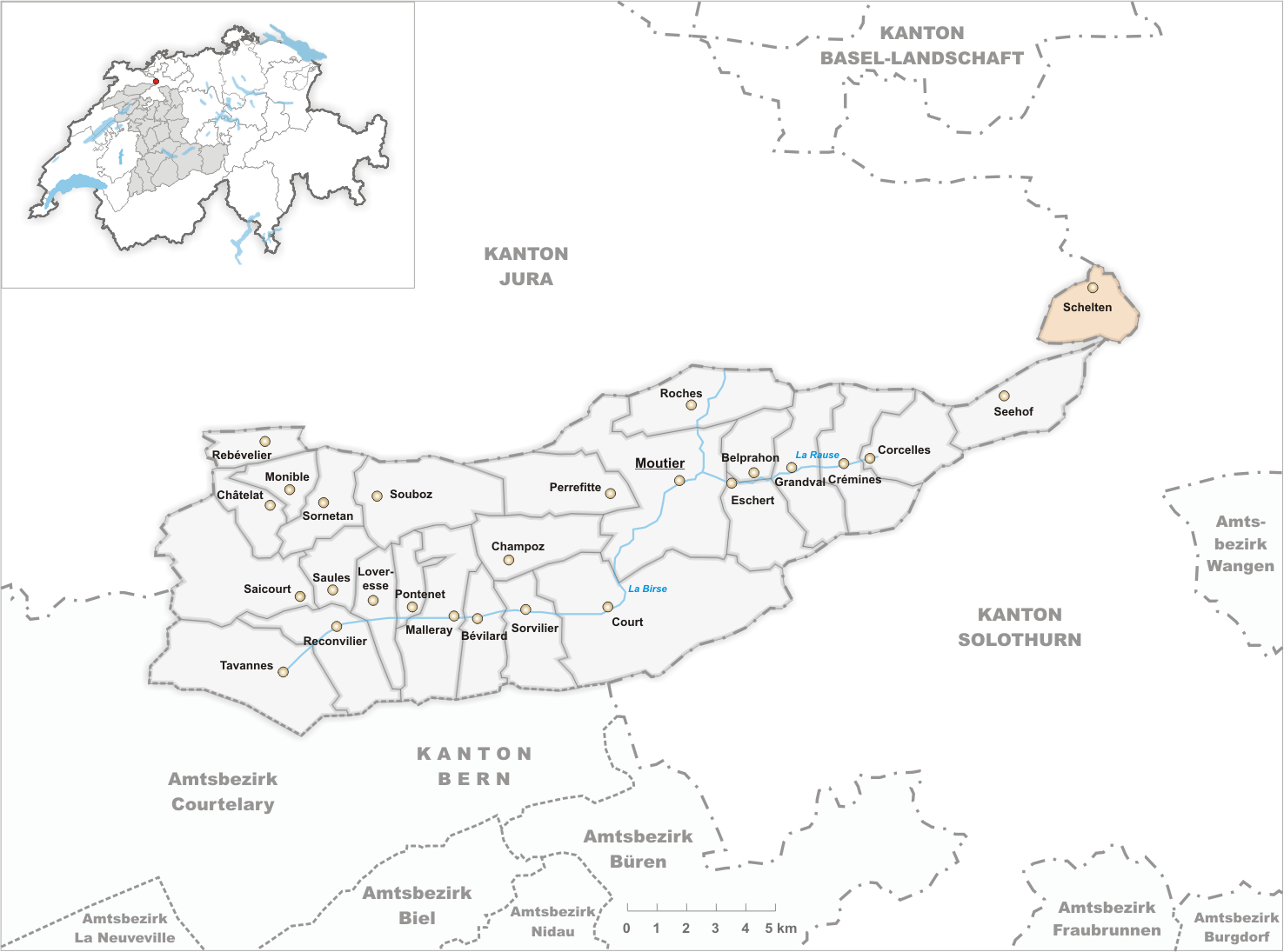 Municipality Schelten